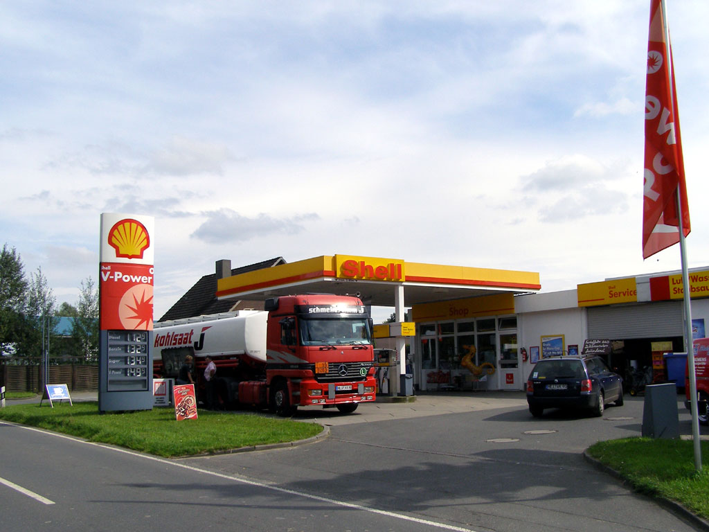 Shell Petrol Station in Hennstedt, Germany